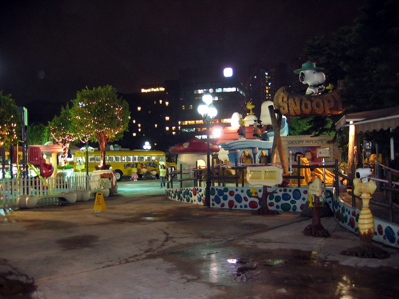 HK Snoopy World at night